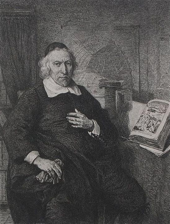 Portrait of Olfert Dapper (1636-1689)